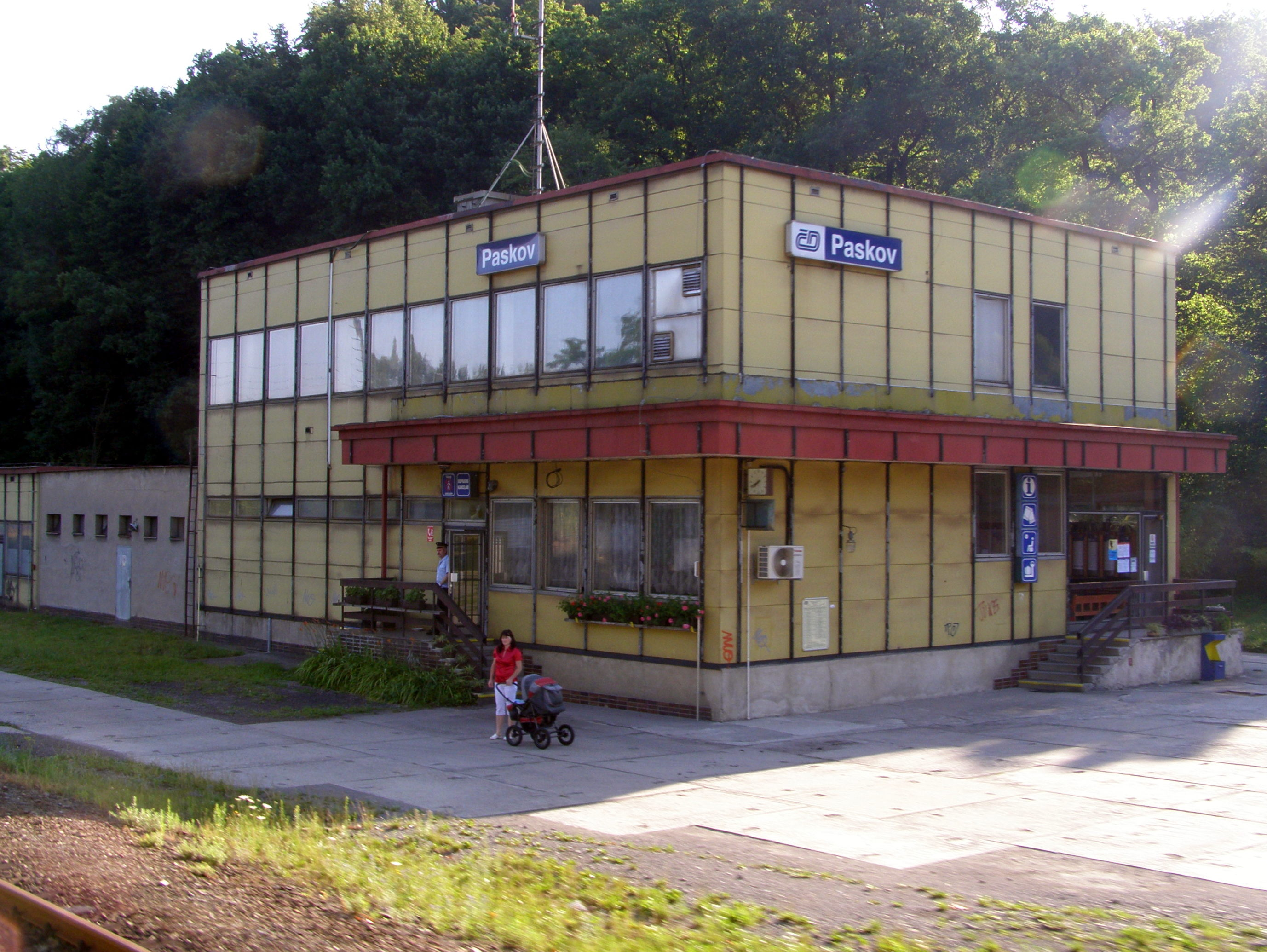 Train station in Paskov